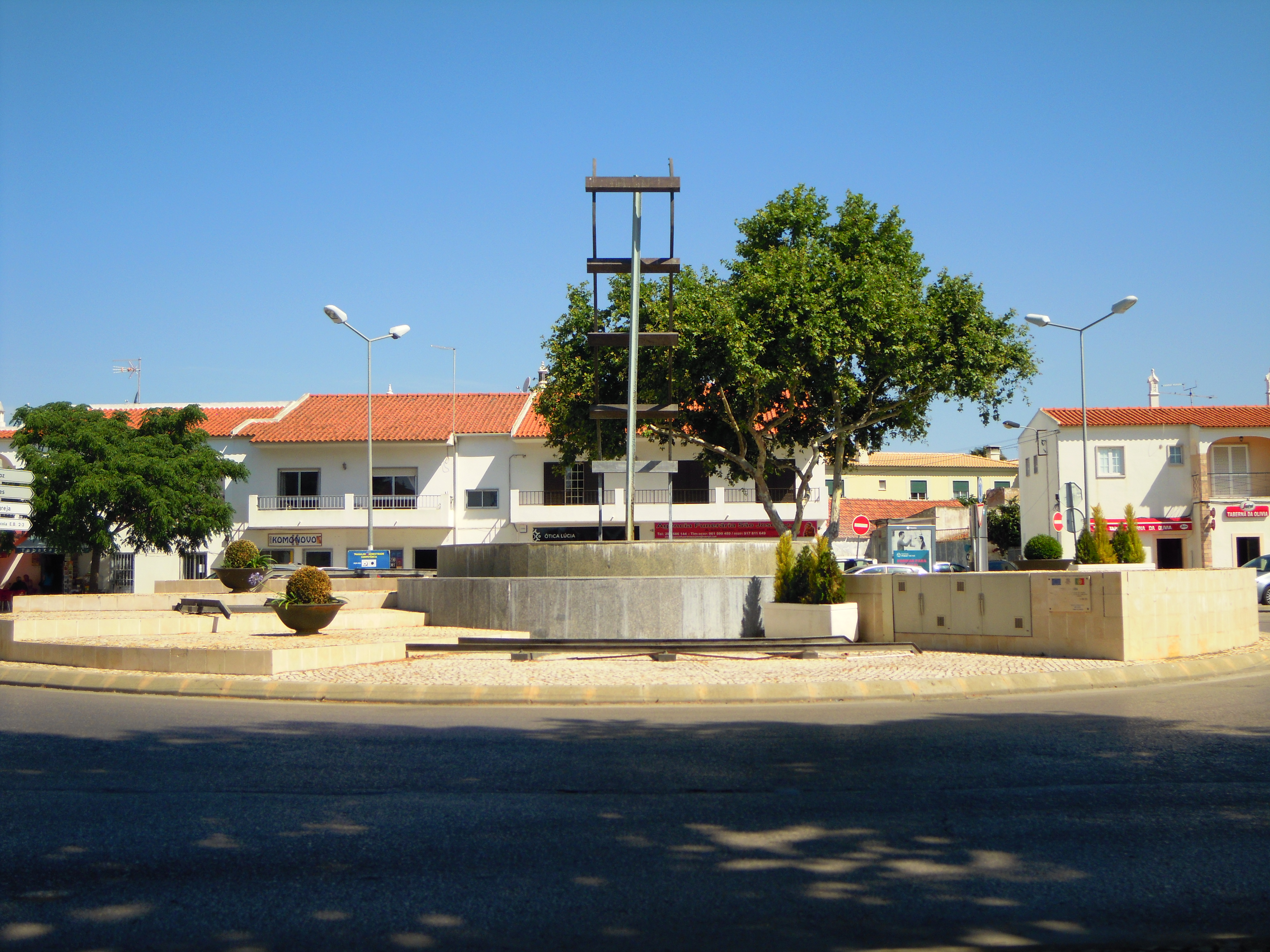 The Railway roundabout is at the centre of Largo das Ferreiras in the centre village of Ferreiras Albufeira, Algarve, Portugal.